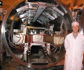 Testbed Lead Renaud Goullioud stands in front of the Microarcsecond Metrology (MAM) testbed.